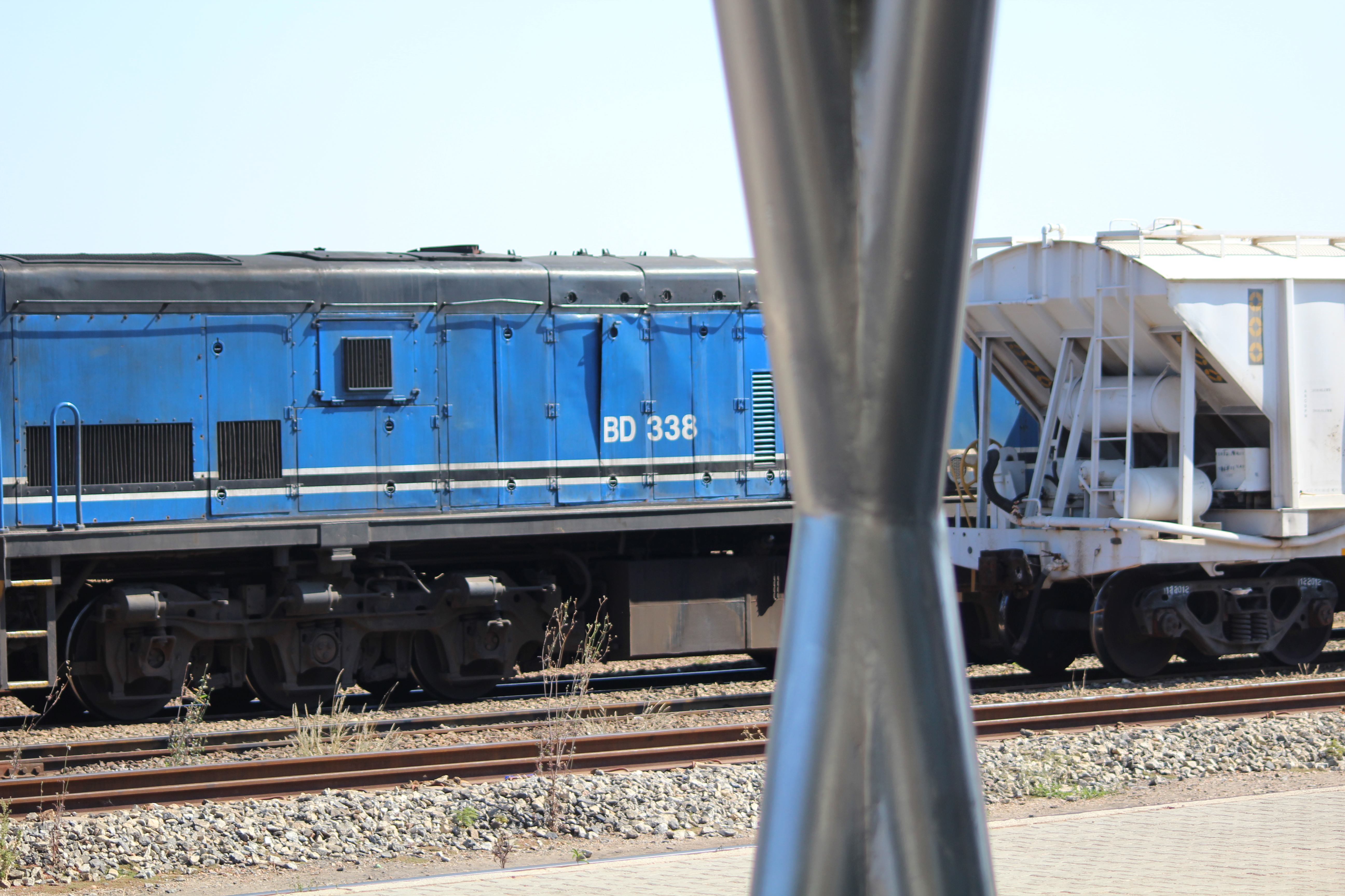 Botswana Rail Express train3